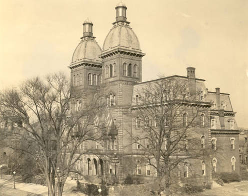 Old Main viewed from the southwest. To the left the Old Gym is visible.